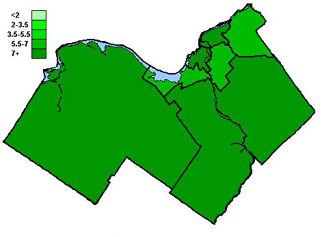 Summary: Map of Ottawa showing party support.